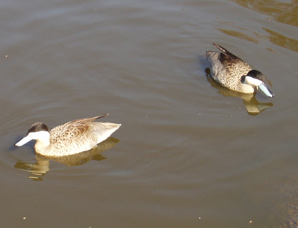 Pair of Puna Teal Anas versicolor puna at Martin Mere, Lancashire, England